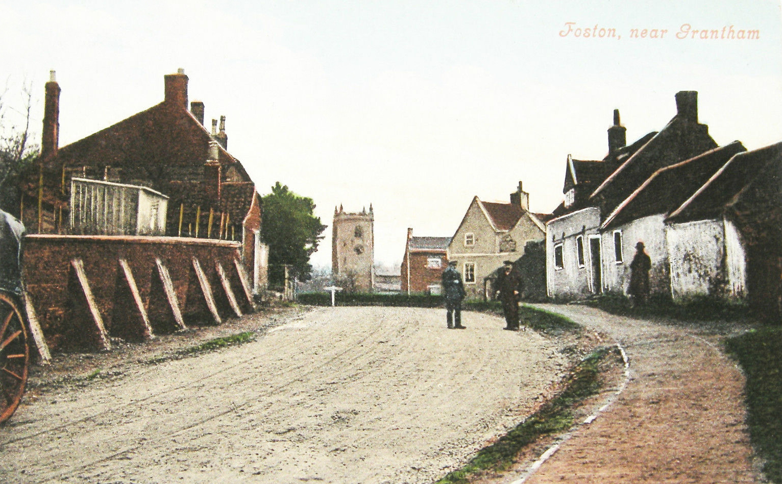 Foston, Lincolnshire, England. Main Street with St Peter's Church and cottages. The Black Horse public house is the cream gabled building to the right of the church. The pub is today a private house. Vintage postcard printed as one of the 'Wheeler's Series' dated pre 1911 per reverse date.